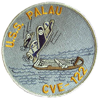 Insignia of the U.S. Navy escort carrier USS Palau (CVE-122), in 1946.